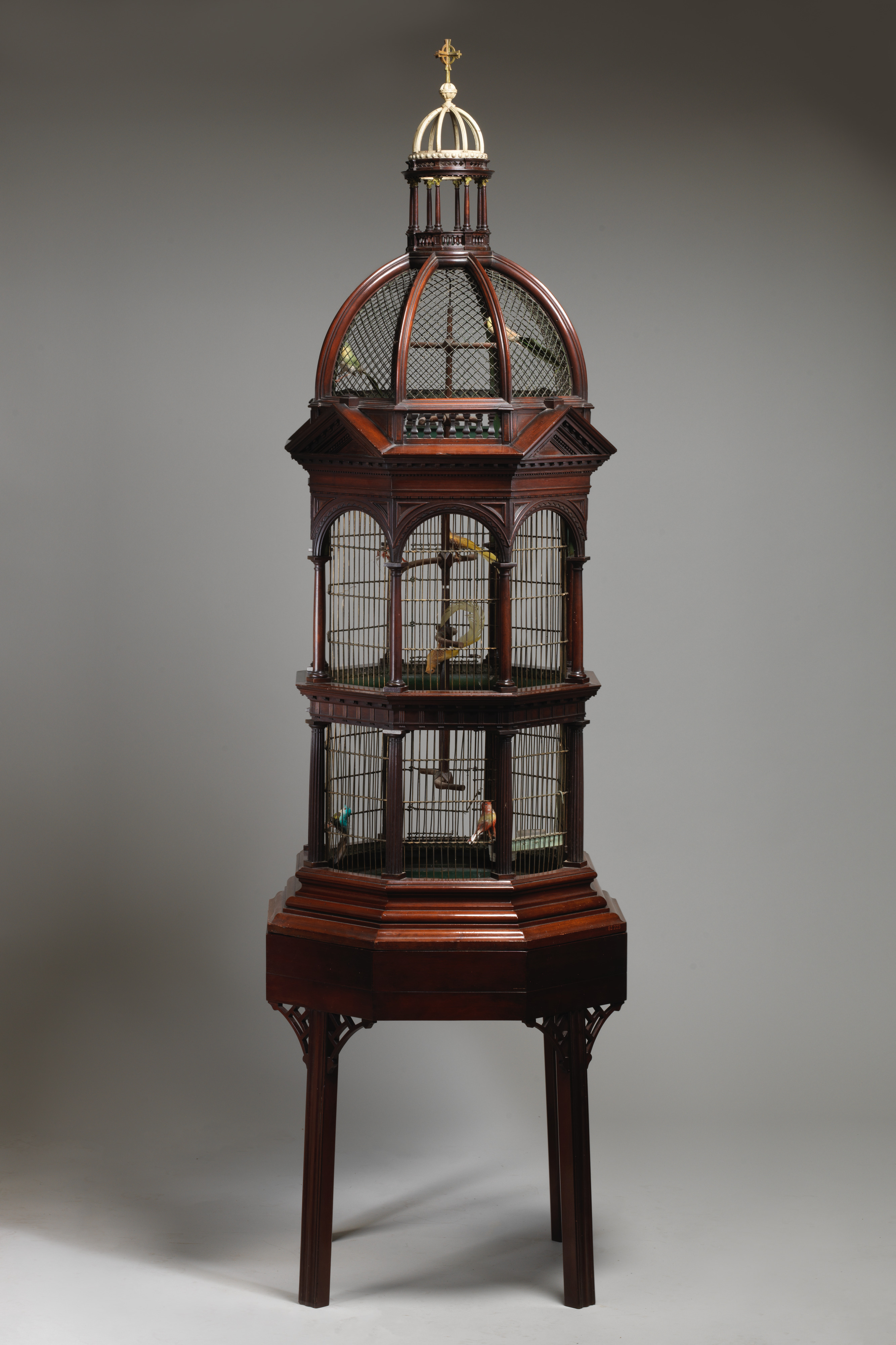 British; Birdcage; Woodwork-Furniture